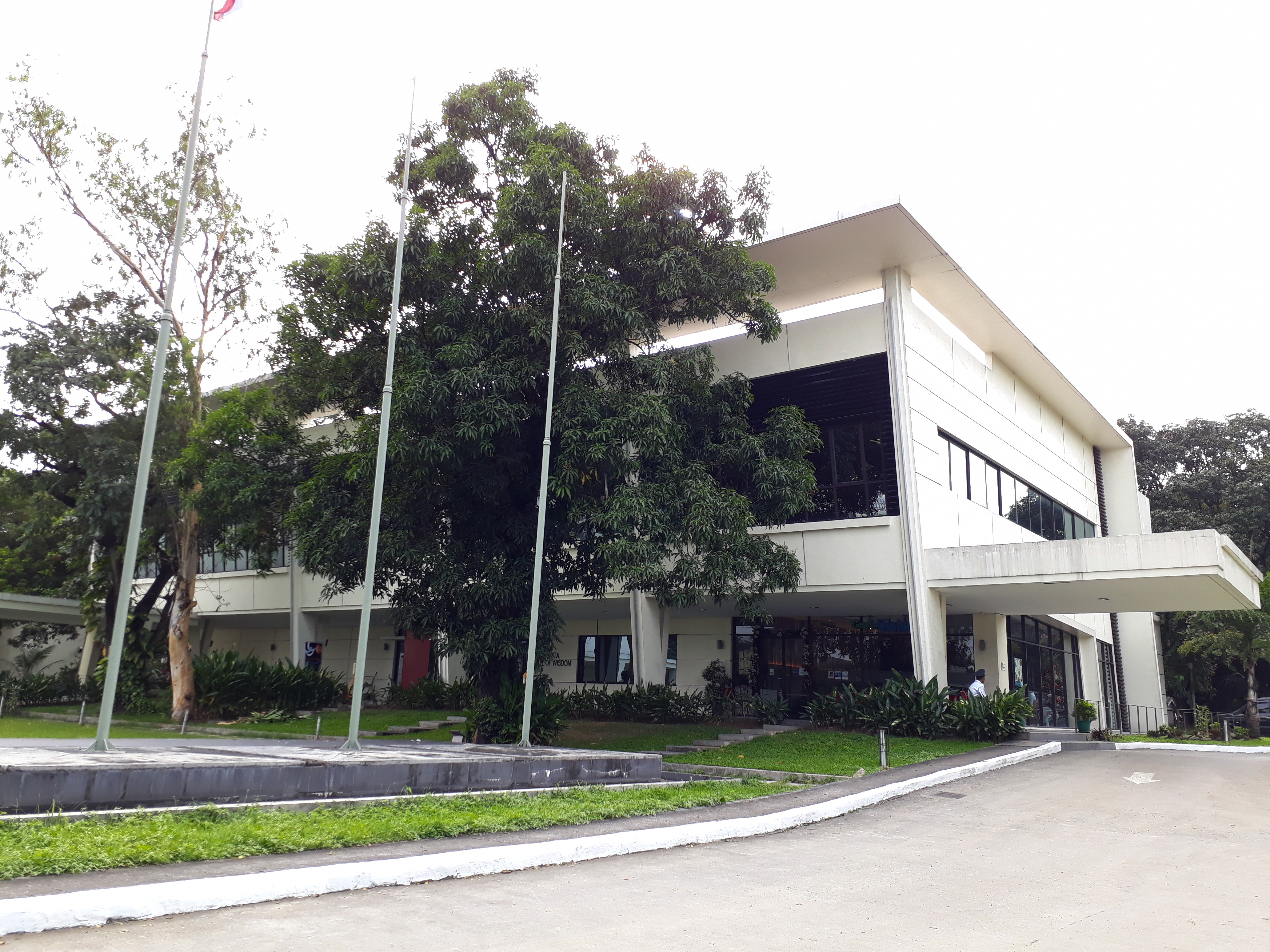 The GT-Toyota Center where the UP Asian Center holds their classes and events.